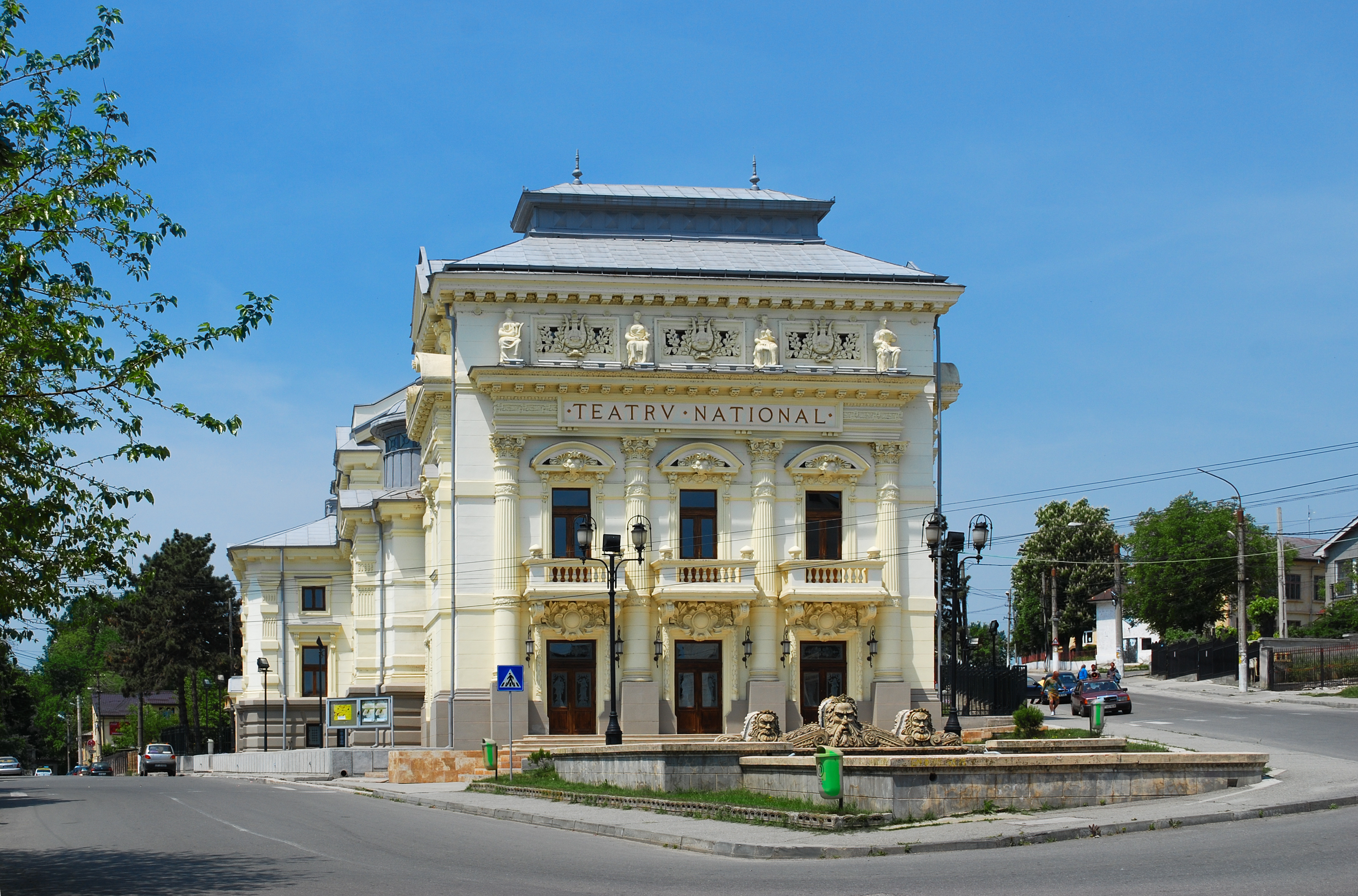 The National Theatre in Caracal, Romania.